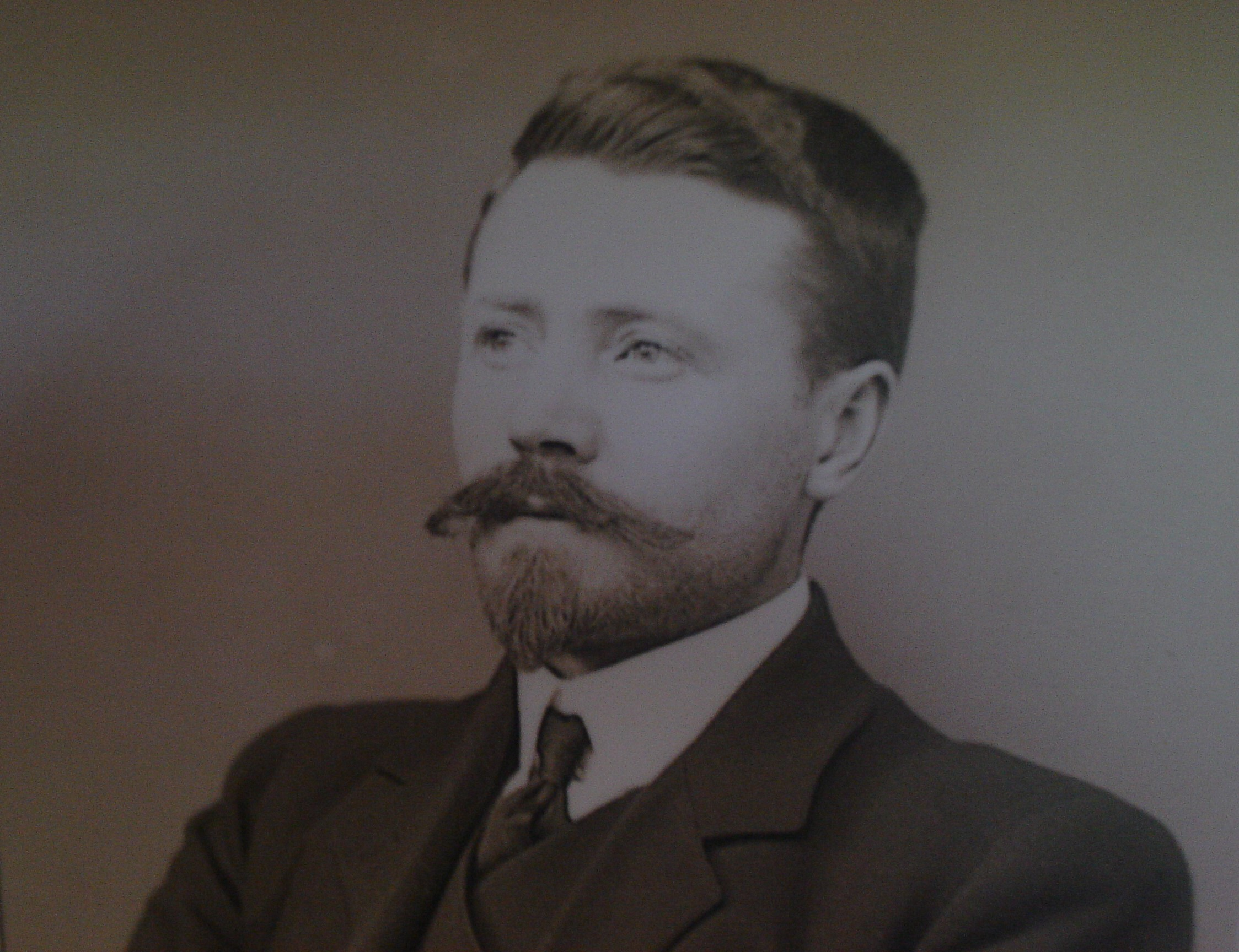 Scan of photo of E H Wilson